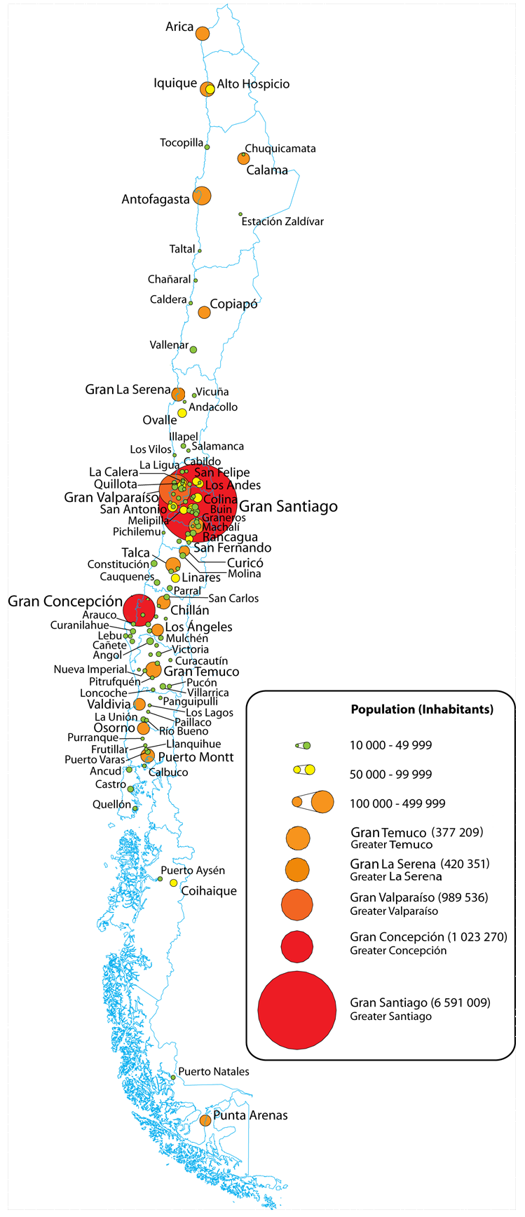 Chilean agglomerations and cities above 10 000 inhabitants. Data base from calculation 2008. San Bernardo & Puente Alto are included in Greater Santiago.